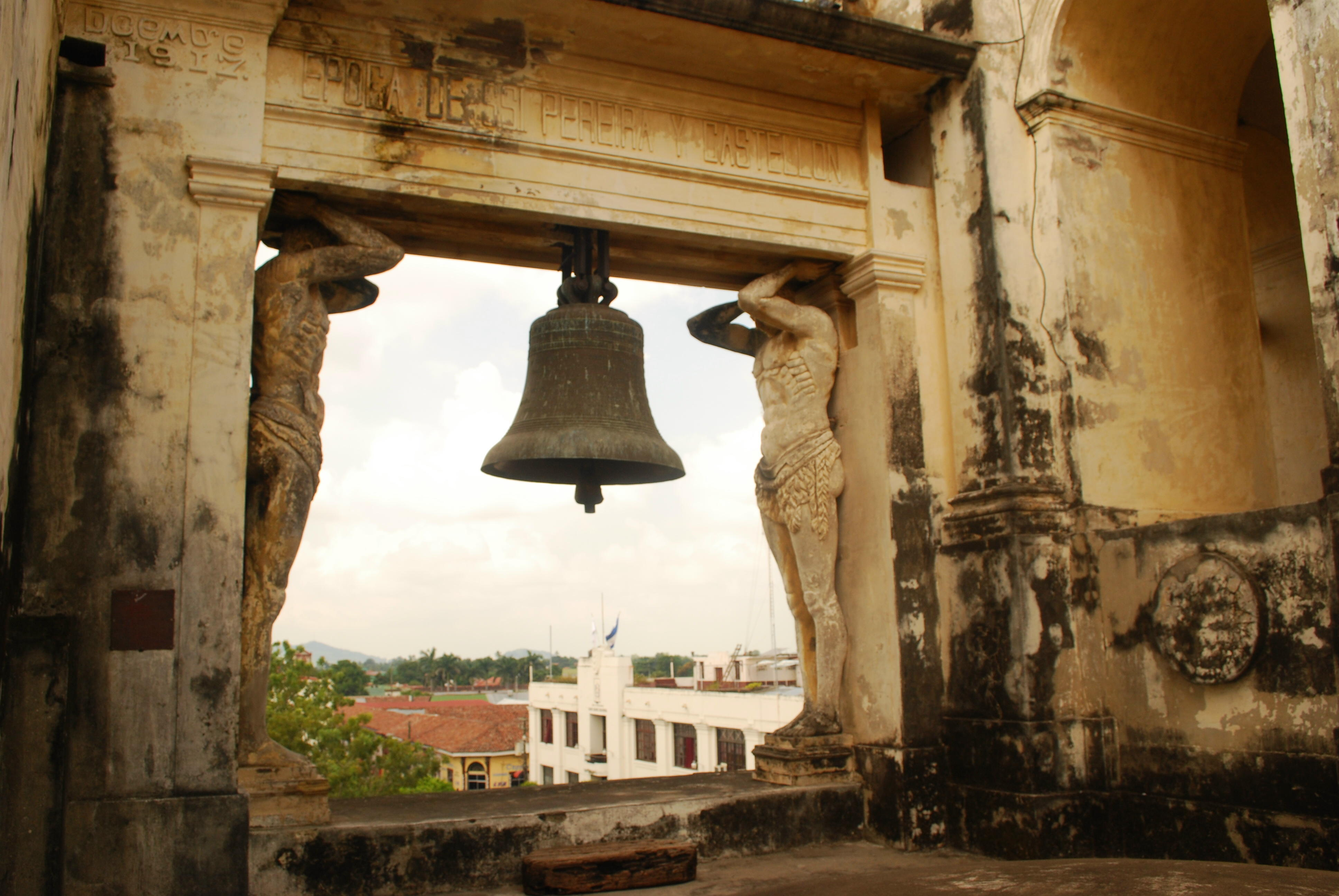 Atlants on the Cathedral facade in León, seen from the roof.